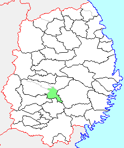 map of former Tōwa Town, Iwate Prefecture, Japan